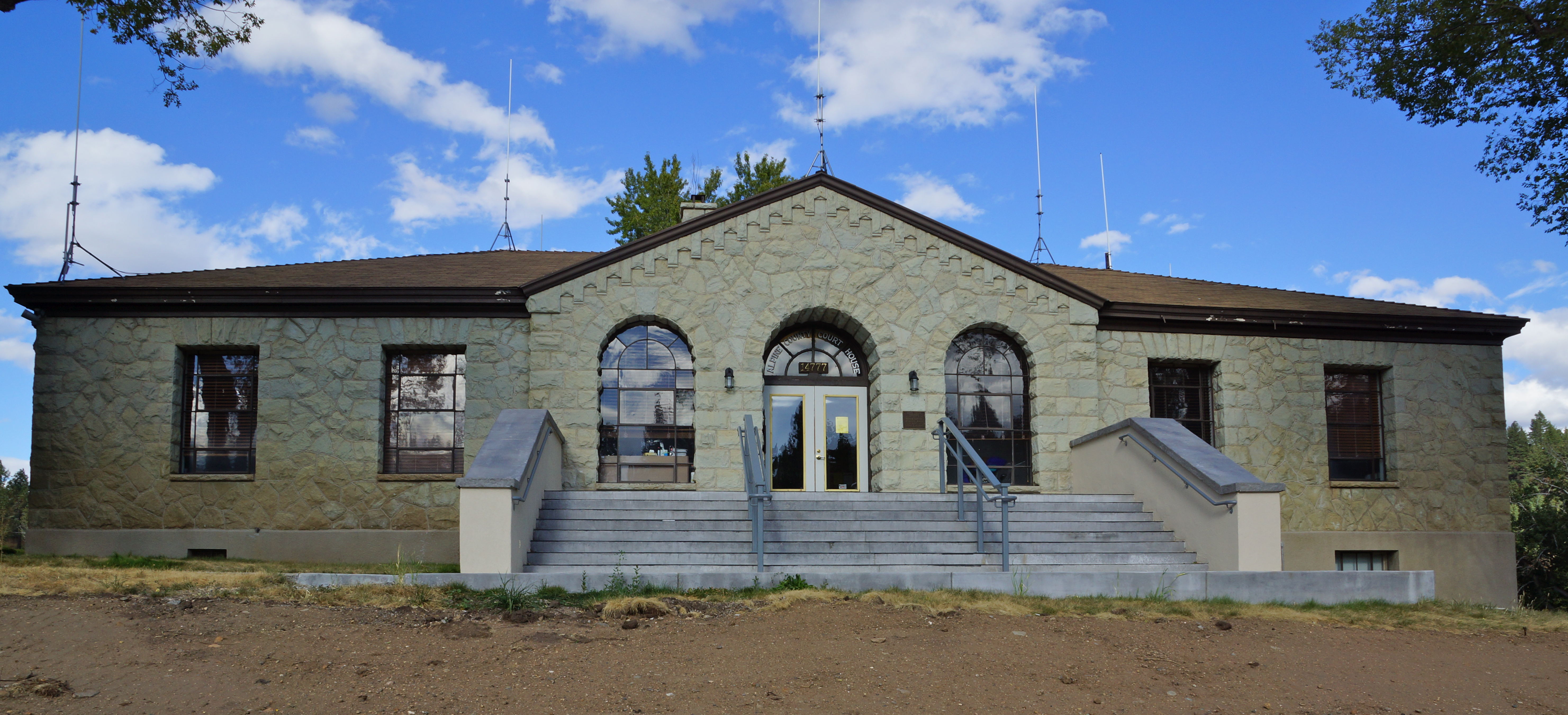 California (Markleeville), United States: Alpine County Courthouse